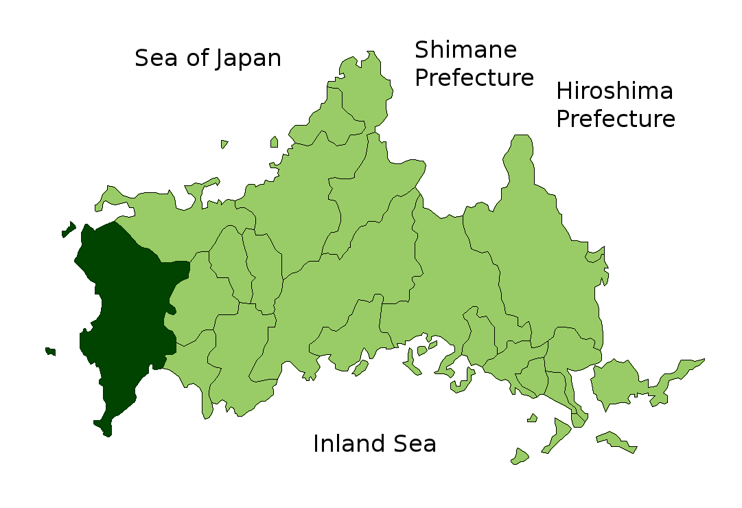 Map of Yamaguchi Prefecture highlighting Shimonoseki city. Borders of map as of July, 2006. (blank map used from [1]) See also Image:YamaguchiMapCurrent.png.